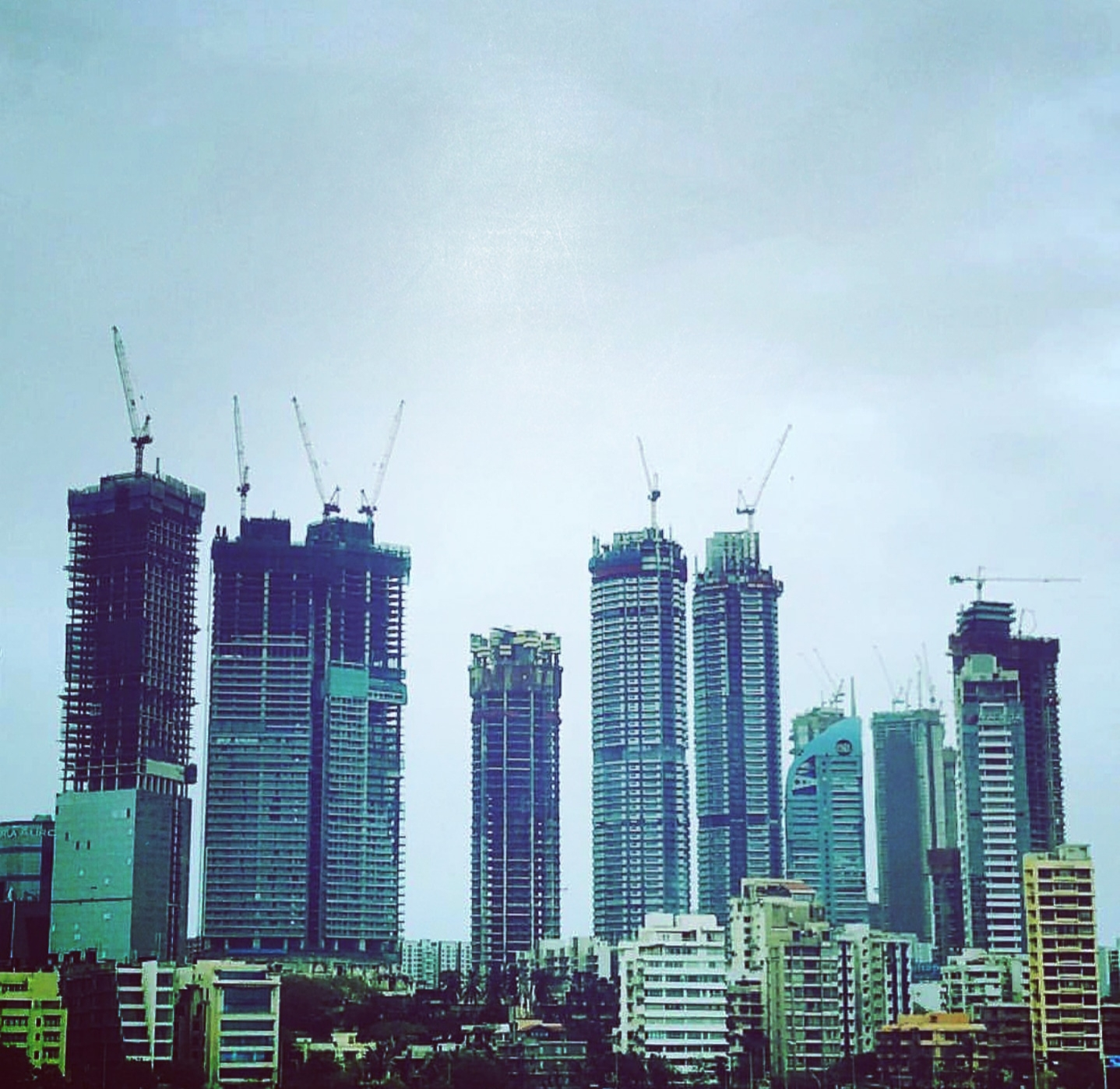 Mumbai skyline worli